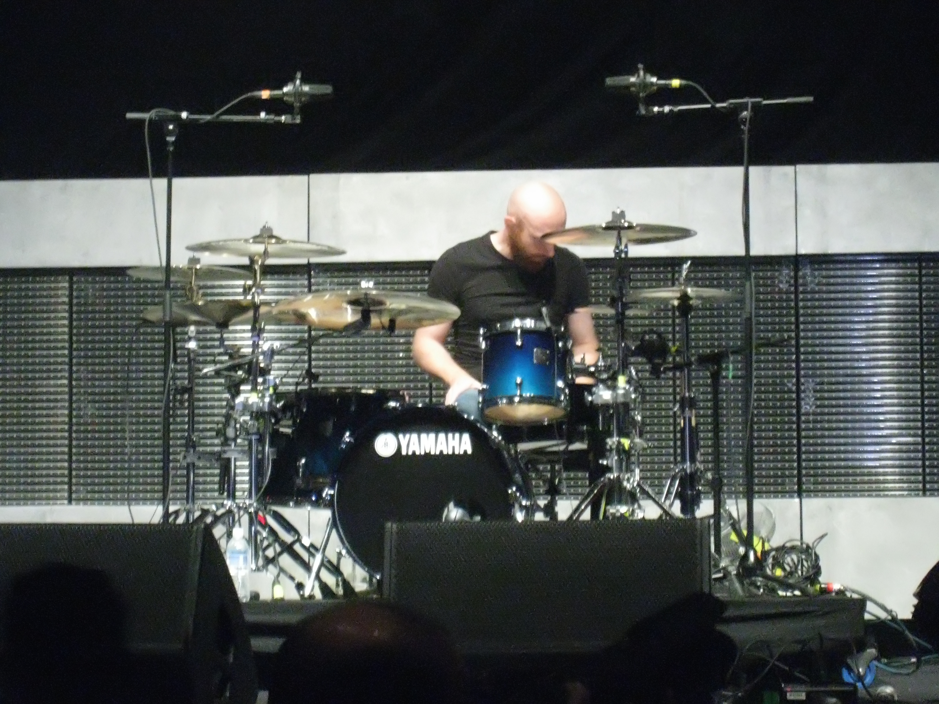 Justin Foley live in concert